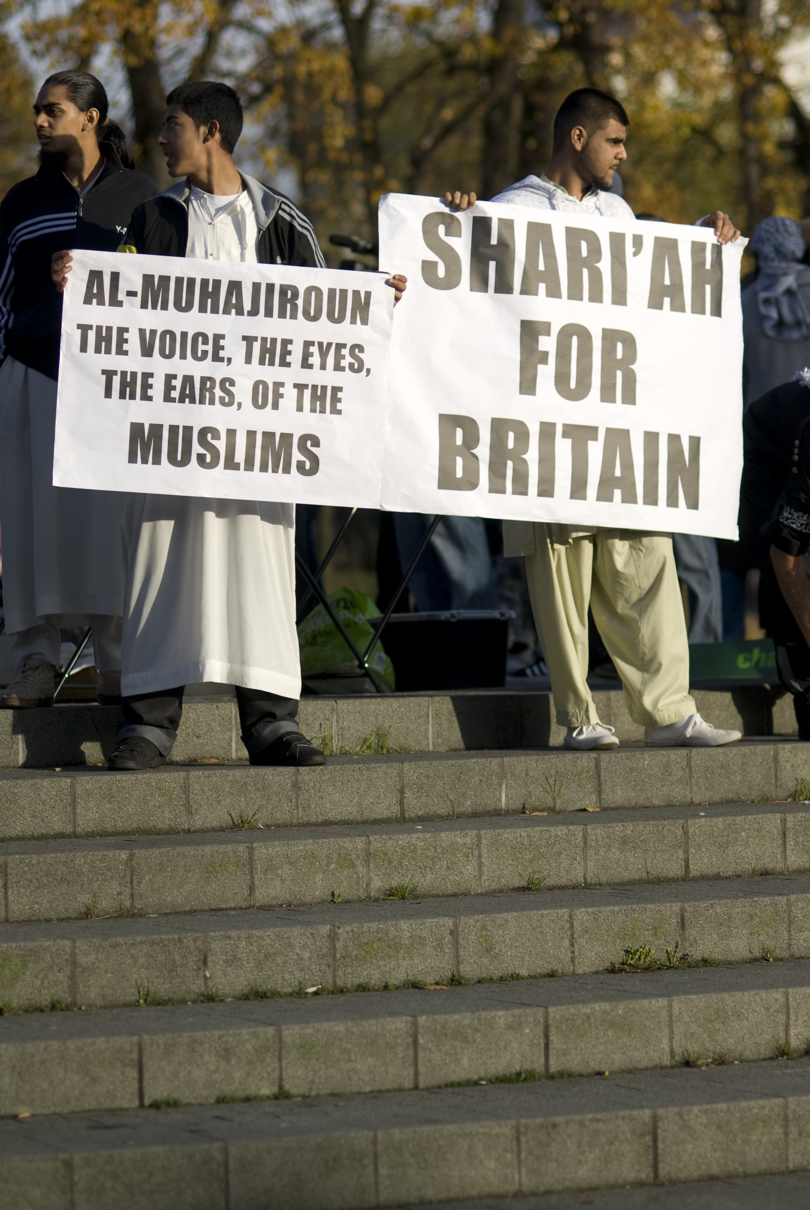 Public demonstration in the United Kingdom for Sharia Al Muhajiroun, Europe October 2009 Shariat, Shariah, Islamic law, Qanoon, Qanun